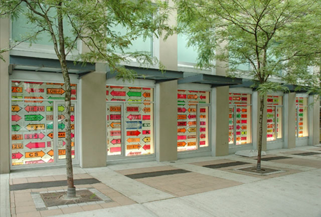 Christian Kliegel's 2006 exhibition at the Contemporary Art Gallery (Vancouver) entitled Production Postings, which featured hundreds of signs that film and television production units had used to direct their casts and crews to filming locales